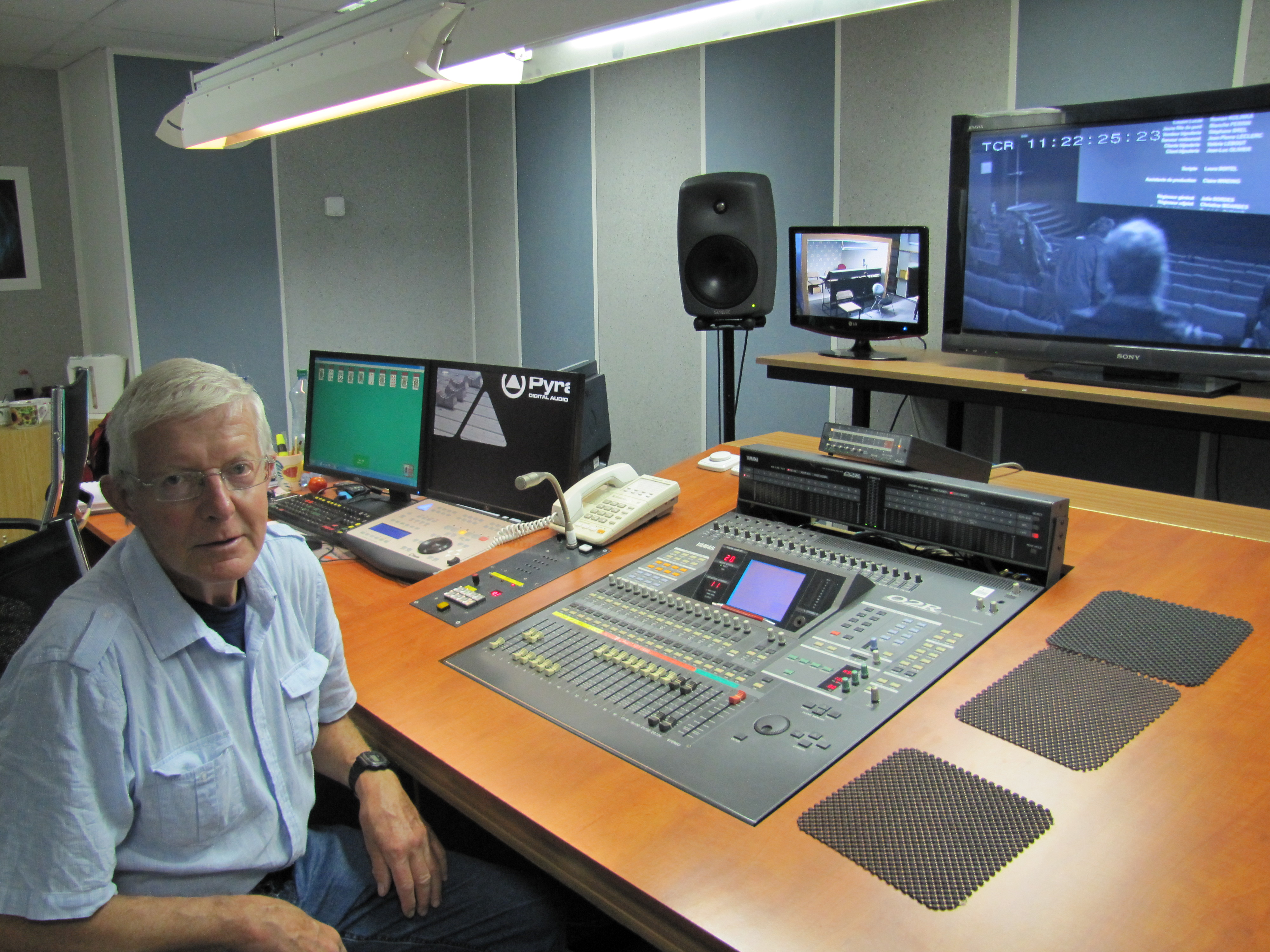 Zdeněk Hrubý v dabingovém studiu České televize v roce 2012